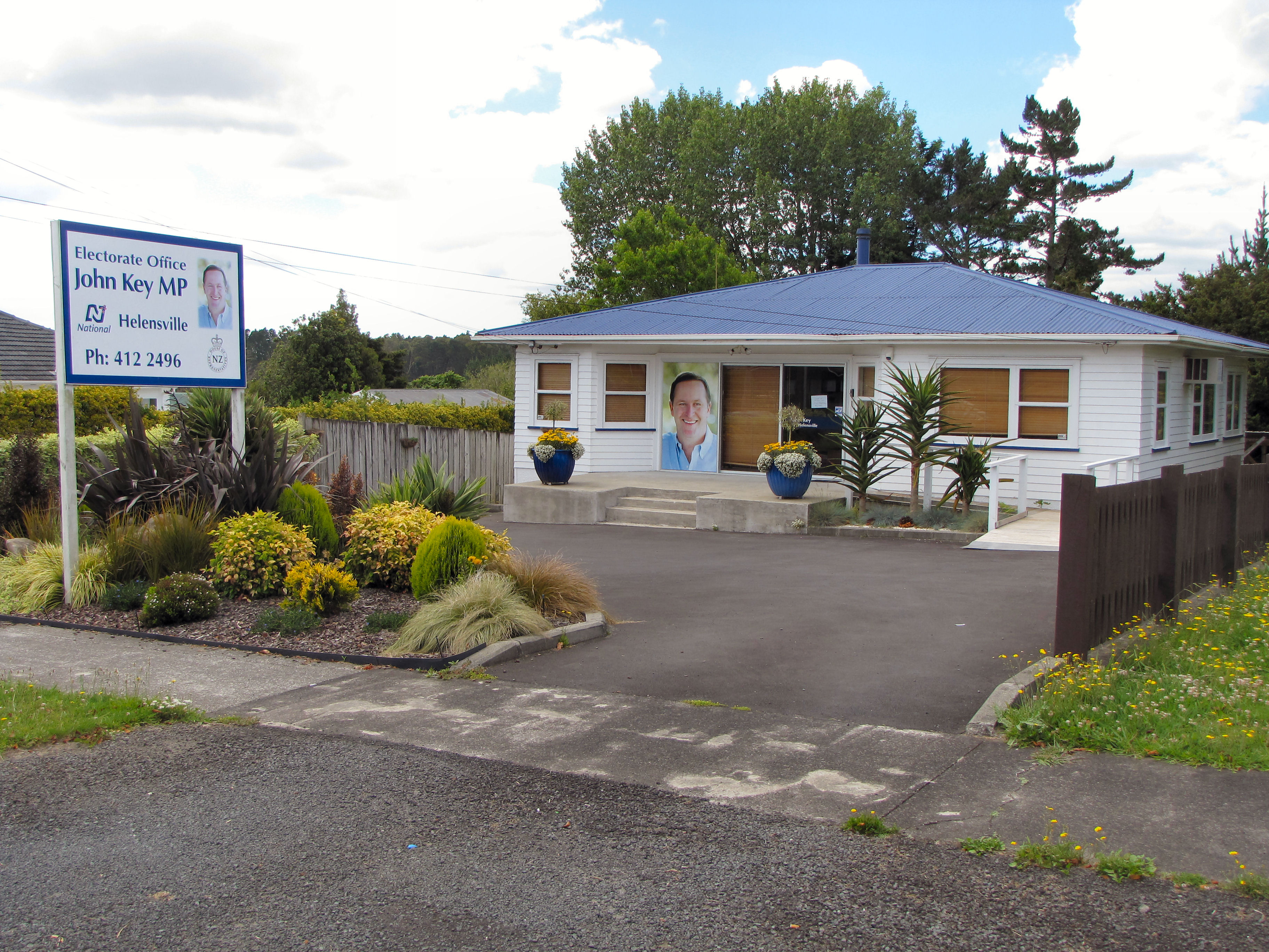 Electorate office of John Key, MP for Helensville and Prime Minister, New Zealand. Located between Waimauku and Huapai on State Highway 16.